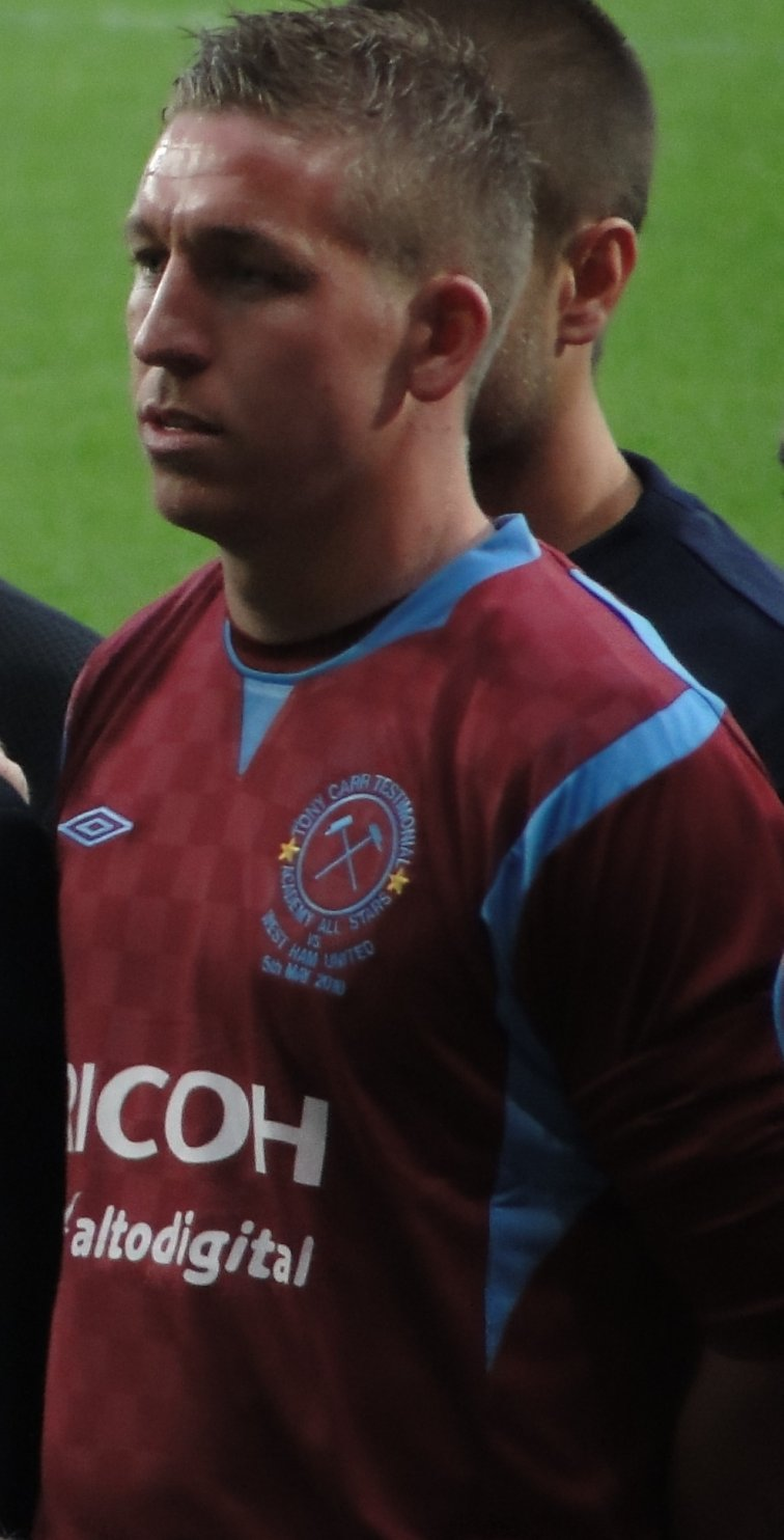 Freddy Eastwood at Tony Carr's testimonial